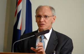 James Maryanski in NZ, March 17, 2005